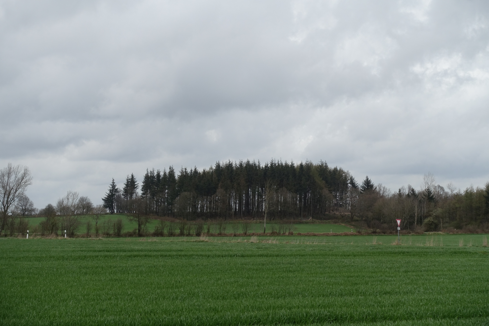 Sandesberg near Ostenfeld (Husum), April 2016.